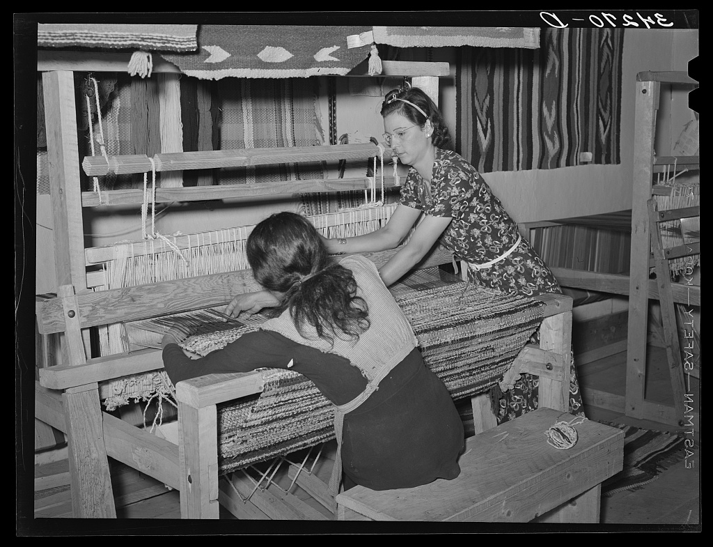 WPA (Works Progress Administration/Work Projects Administration) supervisor instructing Spanish-American woman in weaving of rag rug, Costilla, New Mexico